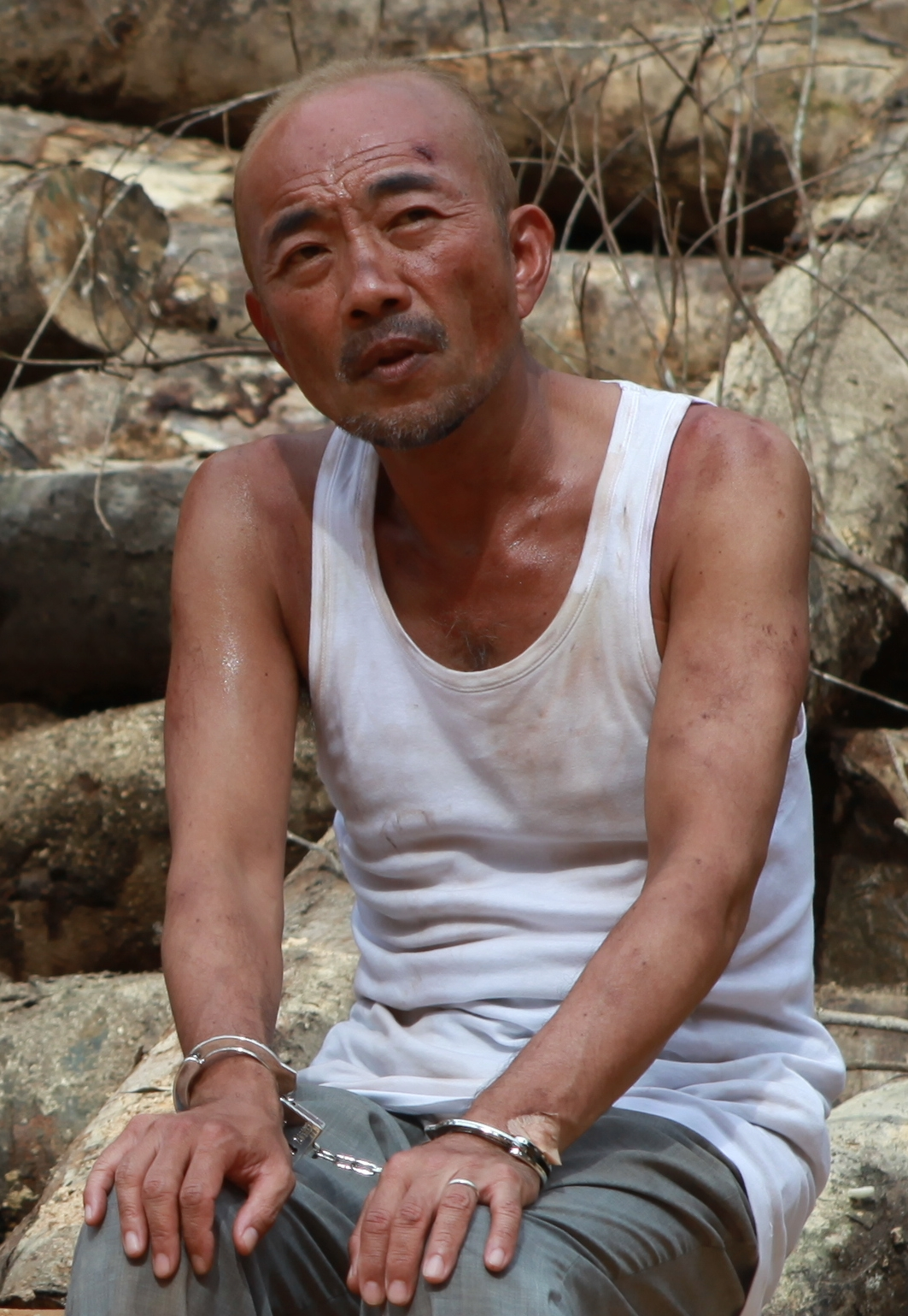 Naoto Takenaka on the set of "Ken and Mary" (cropped version)